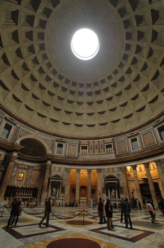 pantheon, rome, pantheon, rome by stanrandom. The Pantheon in Rome, with an 11mm lens. No post-processing yet. The stretched people look like a little like Lowry people to me. Location: Rome